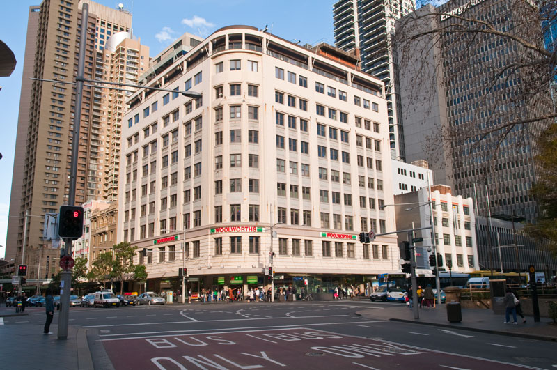 This building is a bit of a Sydney icon. I was extremely fortunate to get an excellent fare with Qantas for a return flight London/Sydney in August 2009 so I popped over to see my daughter and her fiance. I have put photos of the Sydney area earlier on Flickr - I have to show different places/aspects etc. (although some may be similar). August is coming to the end of winter in Sydney - but except for my first full day when there was some rain in the morning, it was sunny and warm, 29 degrees one day! It is colder and wetter back in Strabane in summer than it was in Sydney in winter!